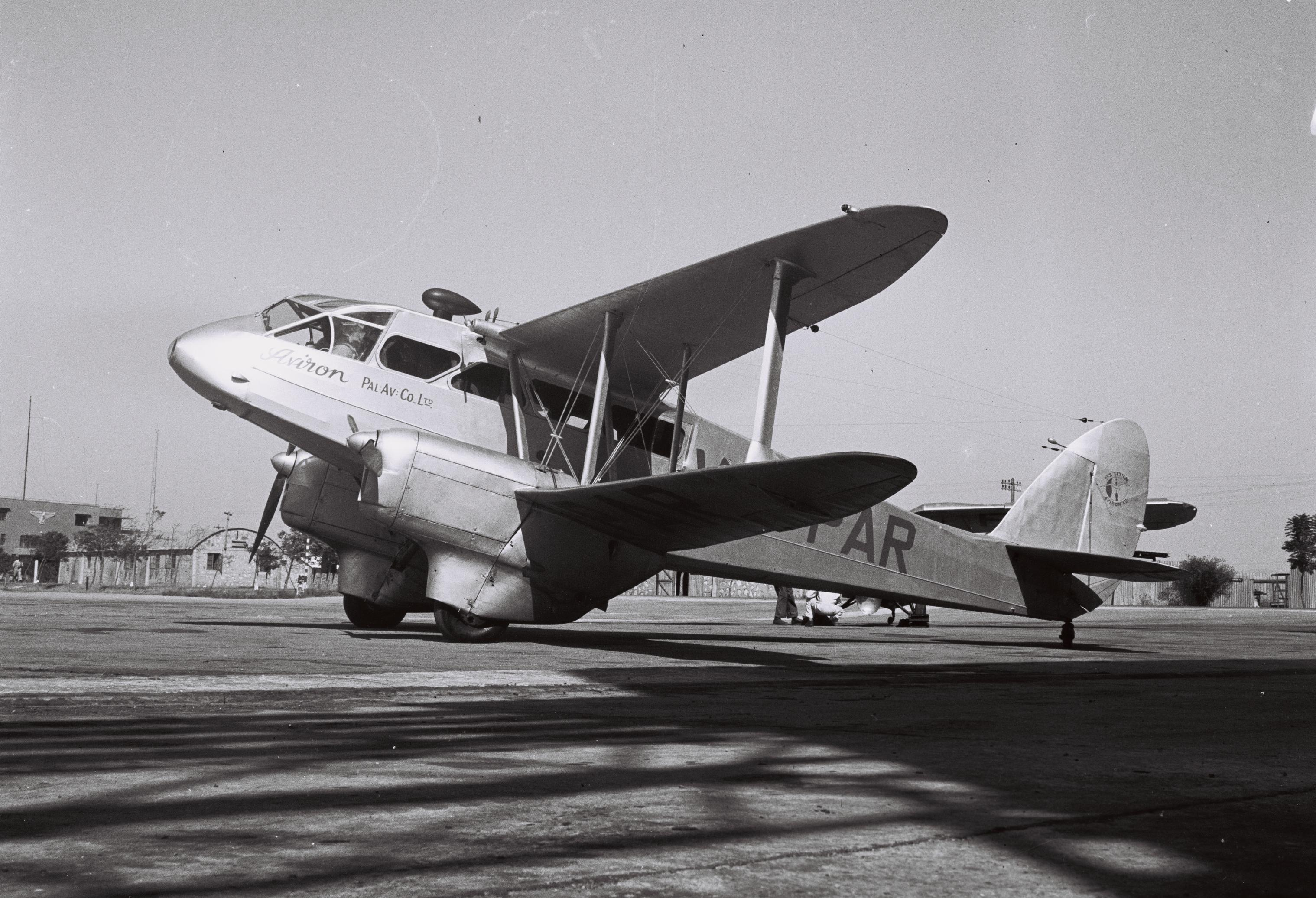 THE "AVIRON" COMPANY PASSENGER PLANE AT LOD. registration: VQ-PAR; the first Jewish airline in Palestine, "Aviron"; Pal Av Co Ltd; De Havilland DH-89A Dominie II; IAF museum